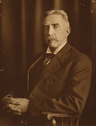 A photograph Thomas Anshutz.